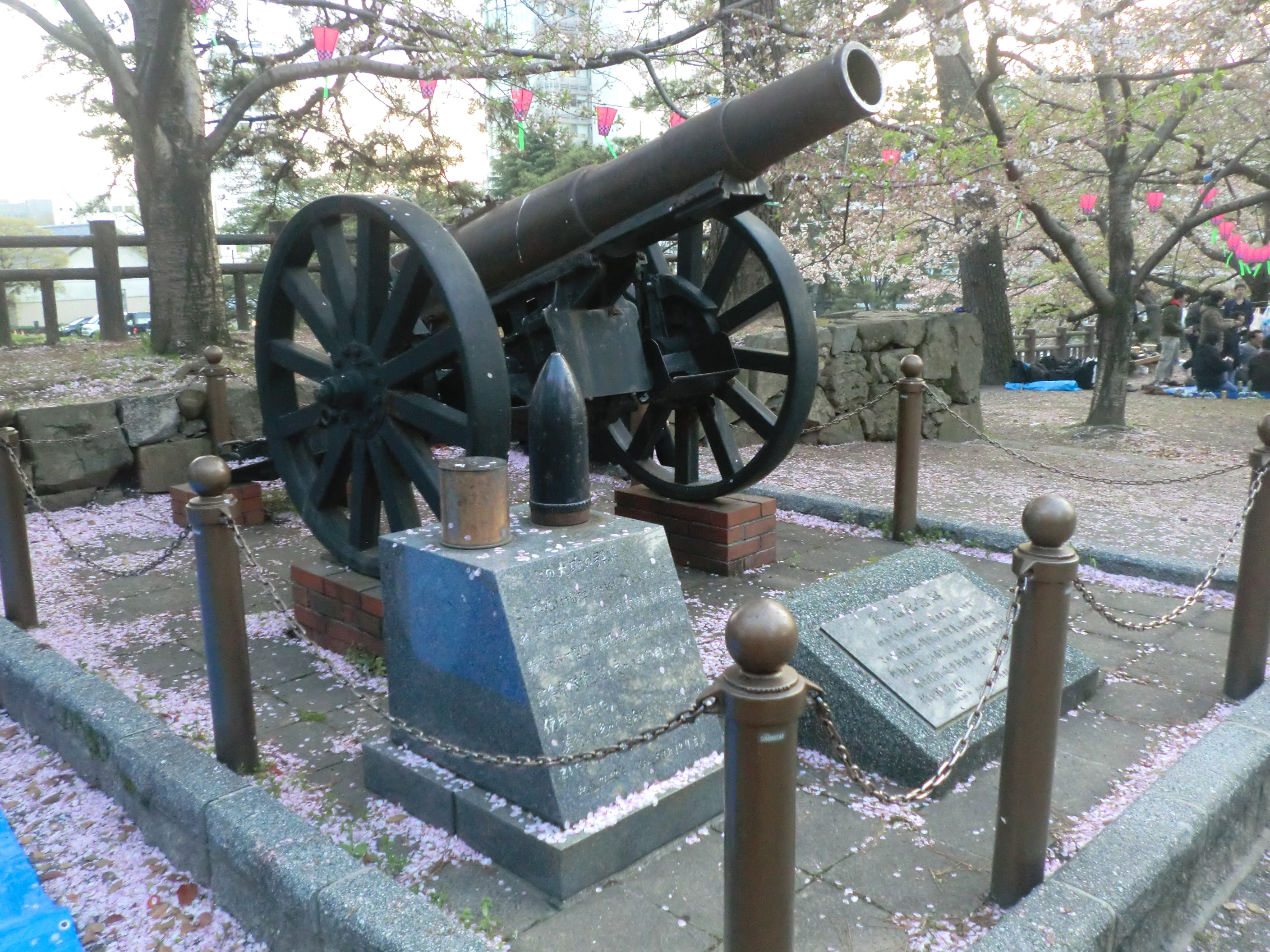 Gun barrel car of Type4 15cm Howitzer, howitzer used by Japanese Imperial Army.